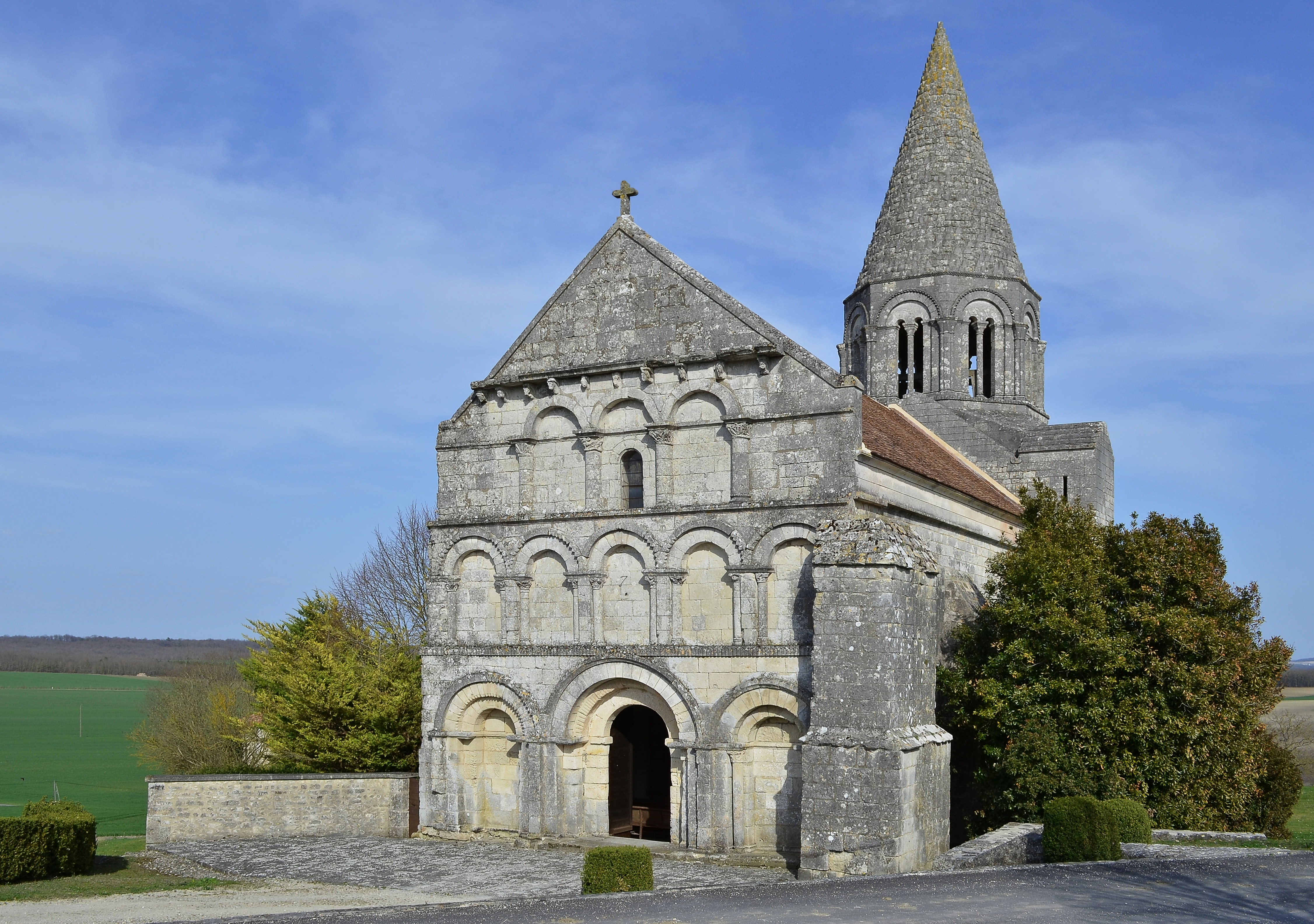 Romanesque church of Plassac-Rouffiac (XIIth century), Charente, France. .